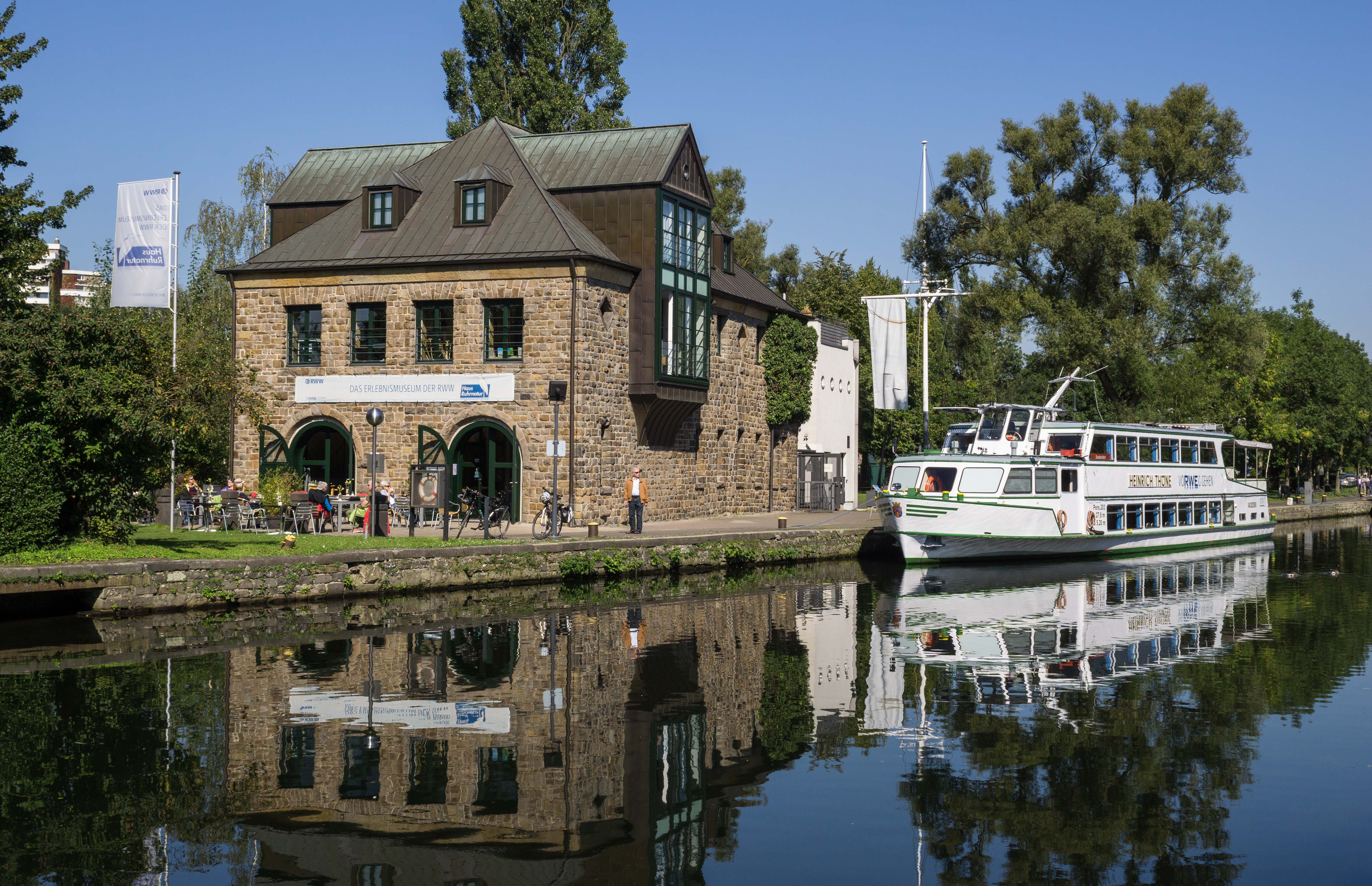 Museum Haus Ruhrnatur with ship Heinrich Thöne of Weiße Flotte Mülheim